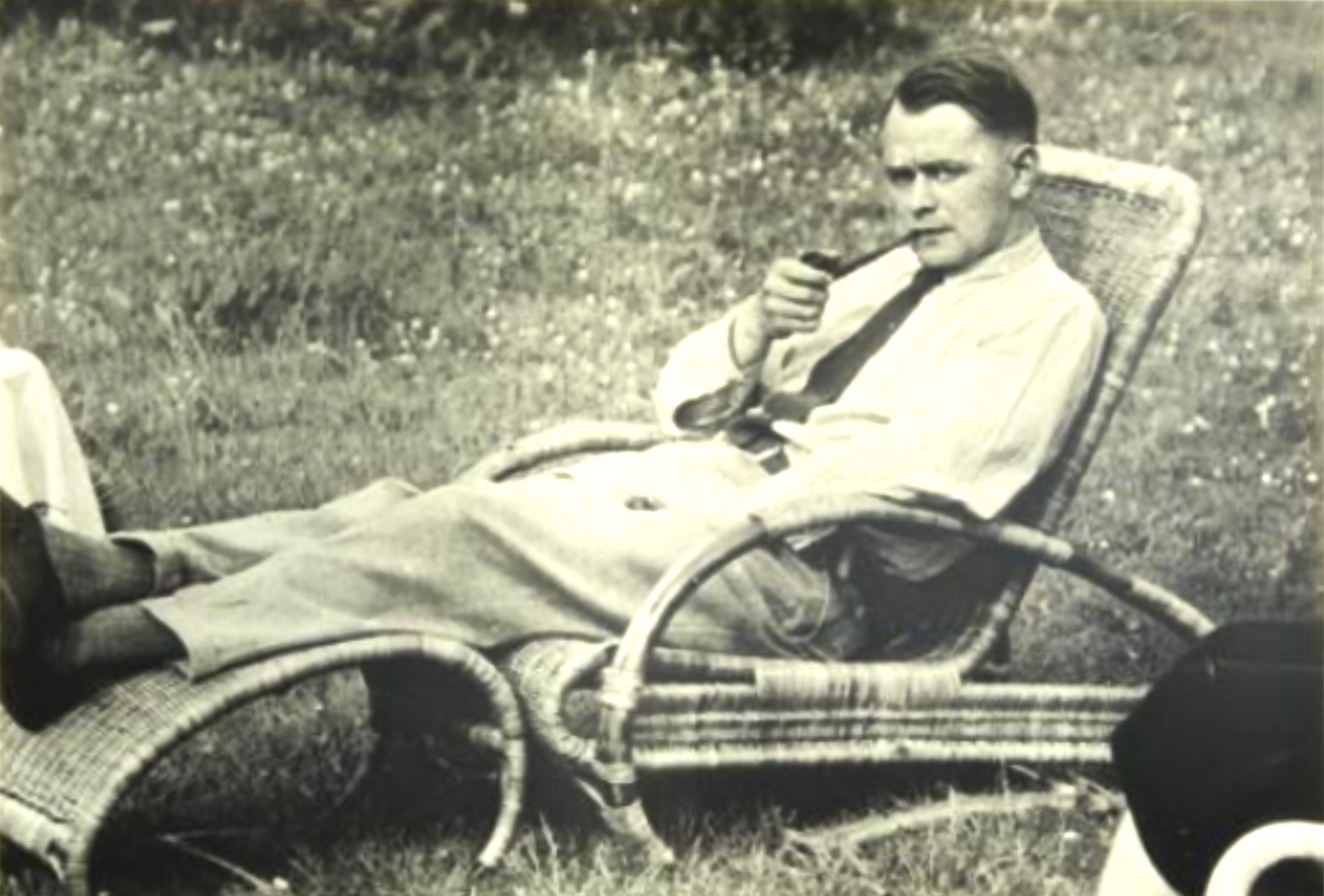 The German carpenter, Bauhaus furniture designer and lecturer Erich Dieckmann (1896–1944) in the inner courtyard of Giebichenstein Castle, Halle, Germany